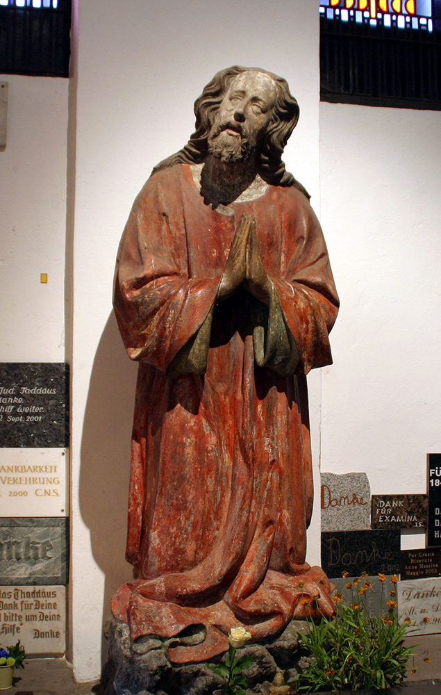 Sculpture Christ at the Mount of Olives in the porch of the romanesque church St. George, Köln, Germany